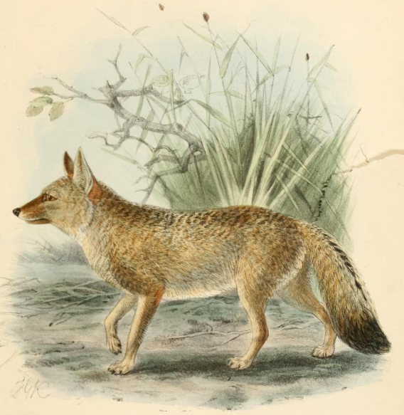 Engraving of a hoary fox by J. G. Keulemans